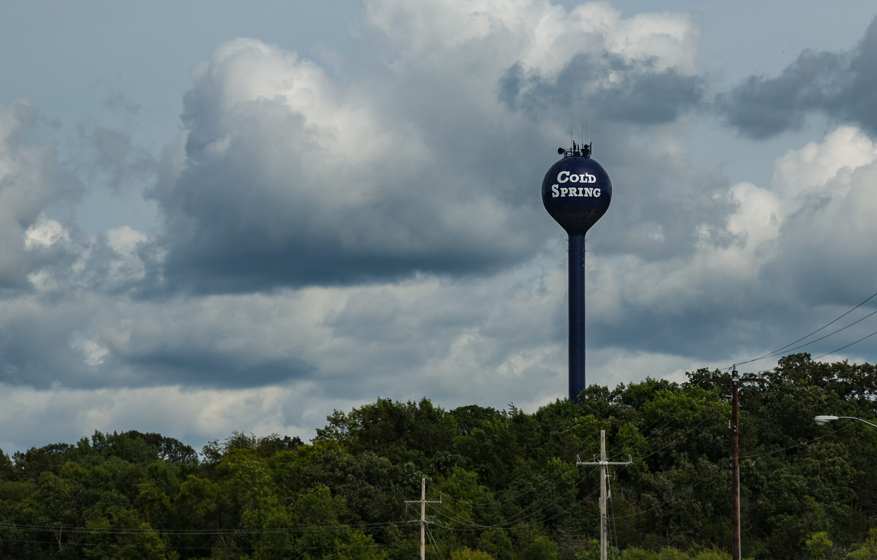 The water tower for the City of Cold Spring, Minnesota, as seen from 3rd Street & 3rd Avenue South in Cold Spring, Minnesota.